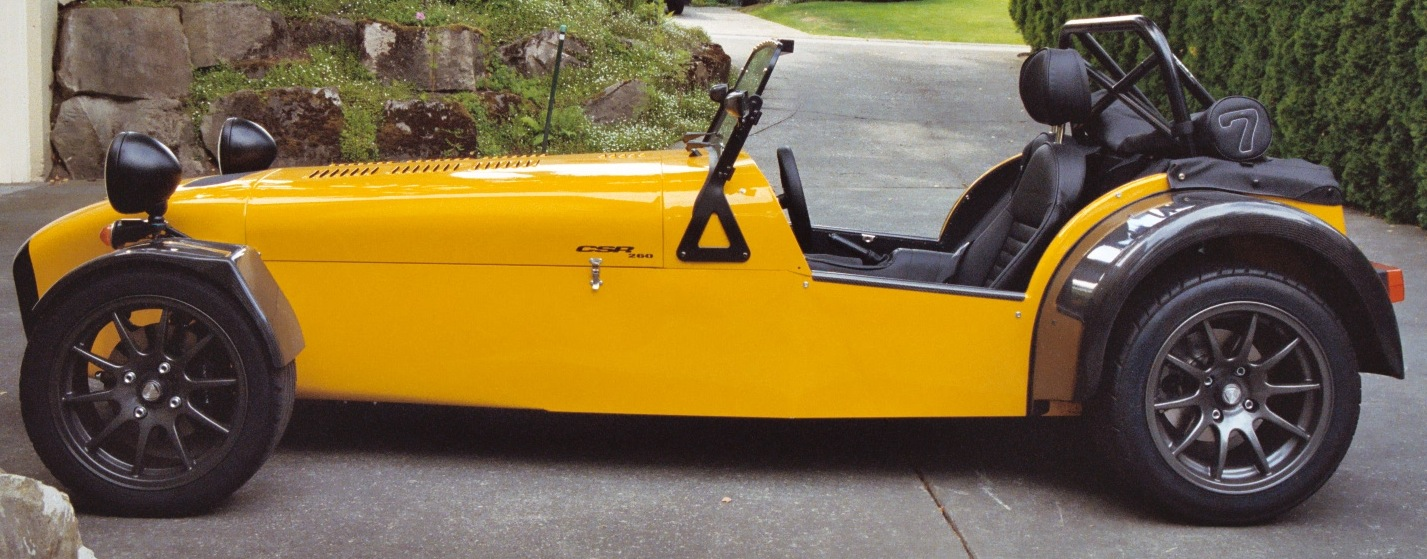 Caterham CSR260